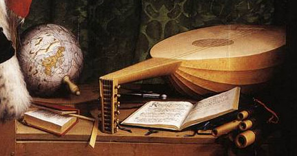 detail, lower-shelfHolbein painted this work in the early part of his second stay in England, which began in 1532. At this time he was prolific, painting Hanseatic merchants, courtiers, landowners, and visitors. The Ambassadors is his most famous and perhaps greatest painting of this period. The life-sized panel portrays Jean de Dinteville, an ambassador of Francis I of France in 1533, and Georges de Selve, Bishop of Lavaur, who visited London the same year. Until the publication of Mary F. S. Hervey's Holbein's Ambassadors: The Picture and the Men in 1900, the identity of the two figures in the picture had been a matter of intense debate. In 1890, Sidney Colvin was the first to propose the figure on the left as Jean de Dinteville, Seigneur of Polisy (1504–1555), French ambassador to the court of Henry VIII for most of 1533. Shortly afterwards, the cleaning of the picture revealed his seat of Polisy as one of only four places marked on the globe. Hervey identified the man on the right as Georges de Selve (1508/09–1541), Bishop of Lavaur, after tracing the painting's history back to a 17th-century manuscript. Hervey's identification of the sitters has remained the standard one, affirmed in several extended studies of the painting. However, rival speculation is not entirely dead. Opposition to the identification of de Selve has been based on an inventory of 1589, discovered by Riccardo Famiglietti, which names the man on the right as de Dinteville's brother François. Leading scholars of the painting argue that this identification of 1589 was incorrect.